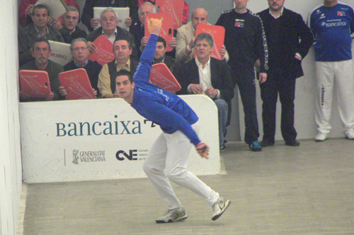 Javi, during the final match of the 2009/10 Circuit Bancaixa